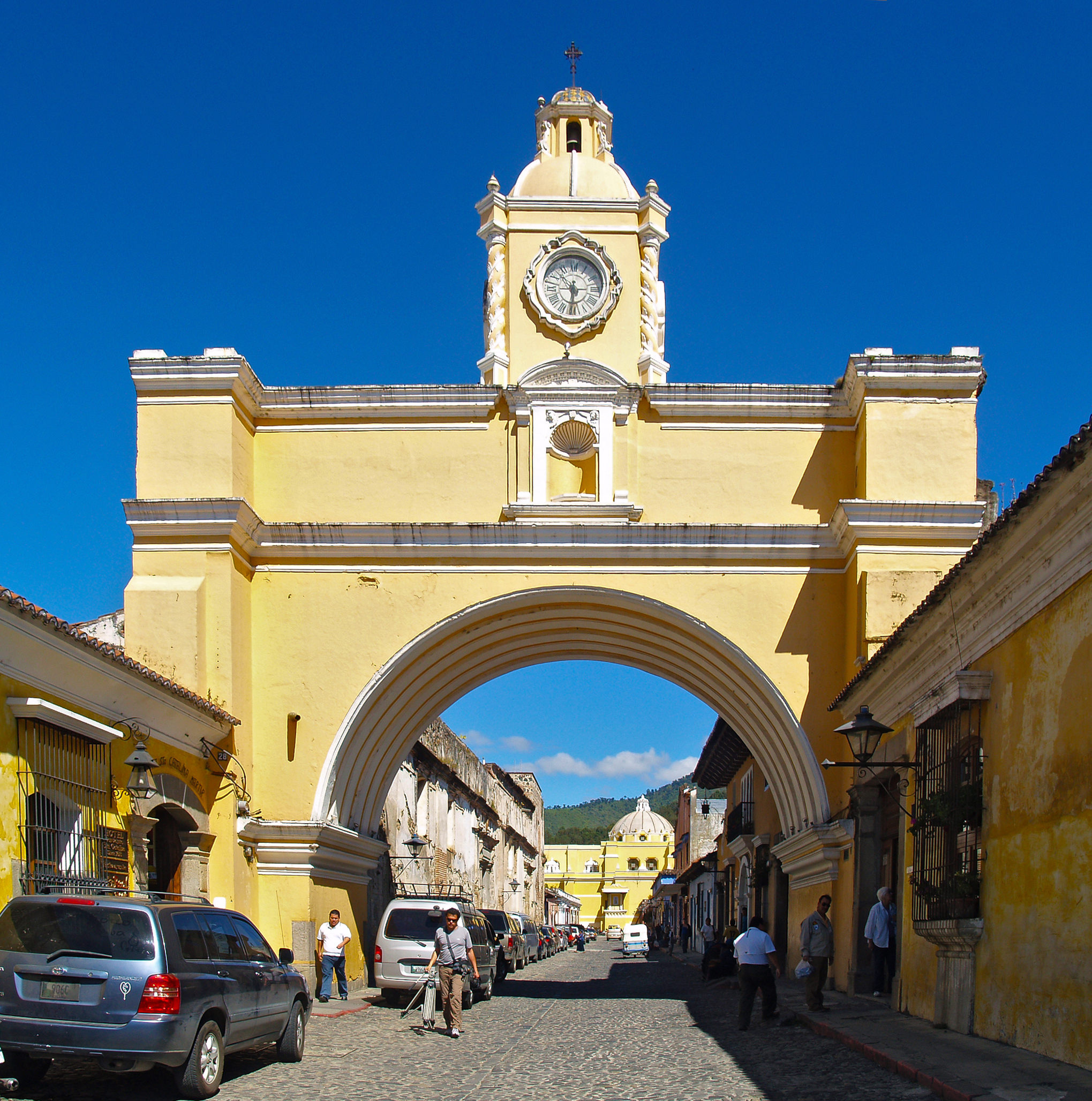 The Arch of Santa Catalina in the town of Antigua, Guatemala